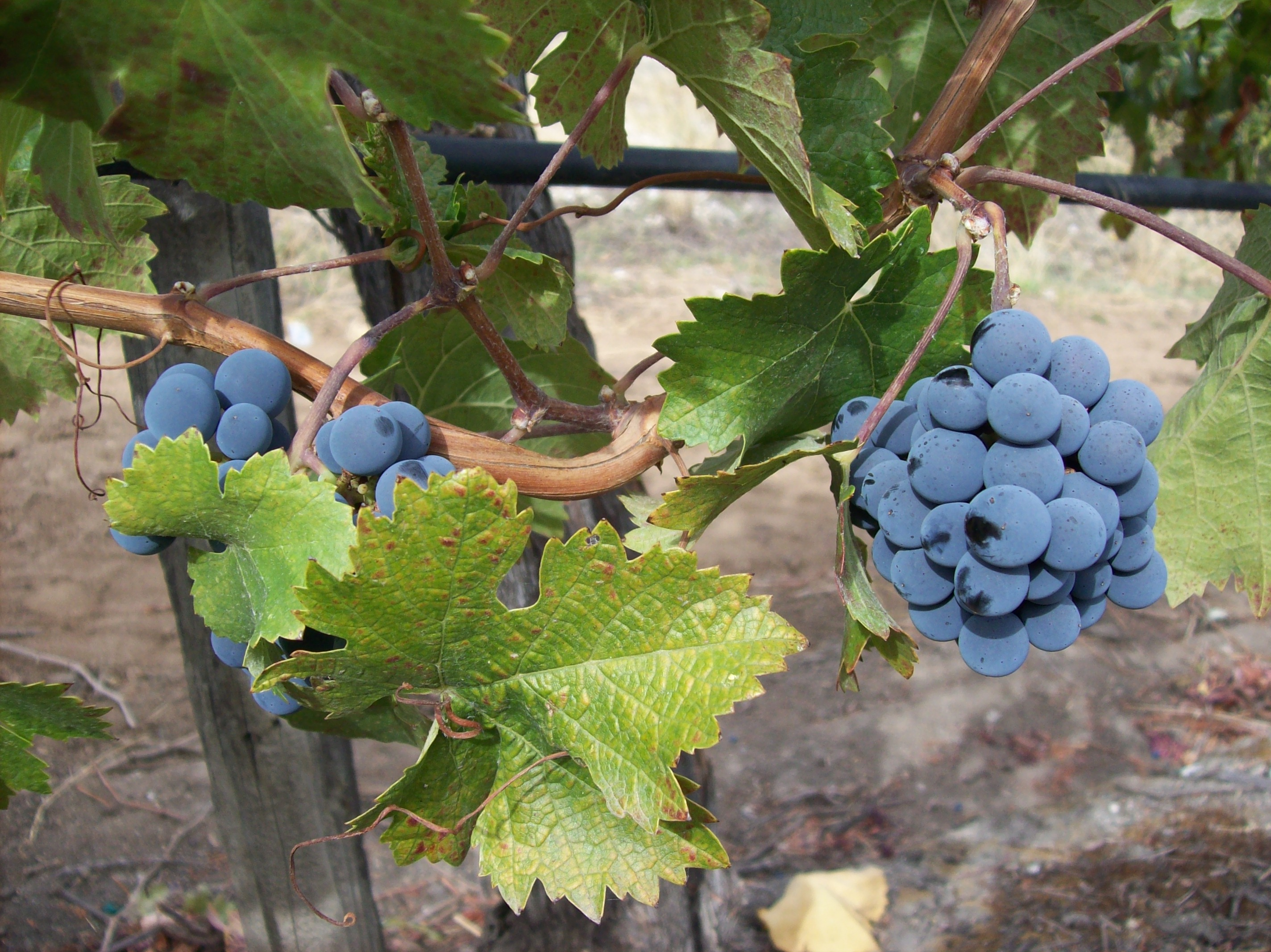 Wine grapes in the northern hemisphere in early November. These clusters are nearly ripe, ready for harvest.